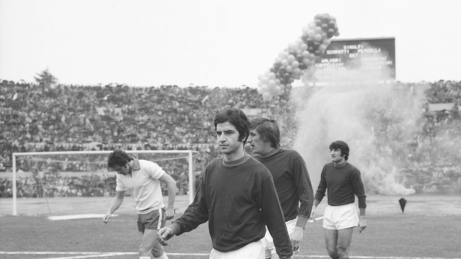 Rome, Olympic Stadium, March 14, 1971. Footballers took to the field for the Rome Derby, A.S. Roma — S.S. Lazio 2-2, Matchday 21 of the Italian Championship 1970–71 Serie A. From left to right: Lazio's Giorgio Chinaglia, and Roma's Stefano Pellegrini, Franco "Ciccio" Cordova and Sergio Santarini.